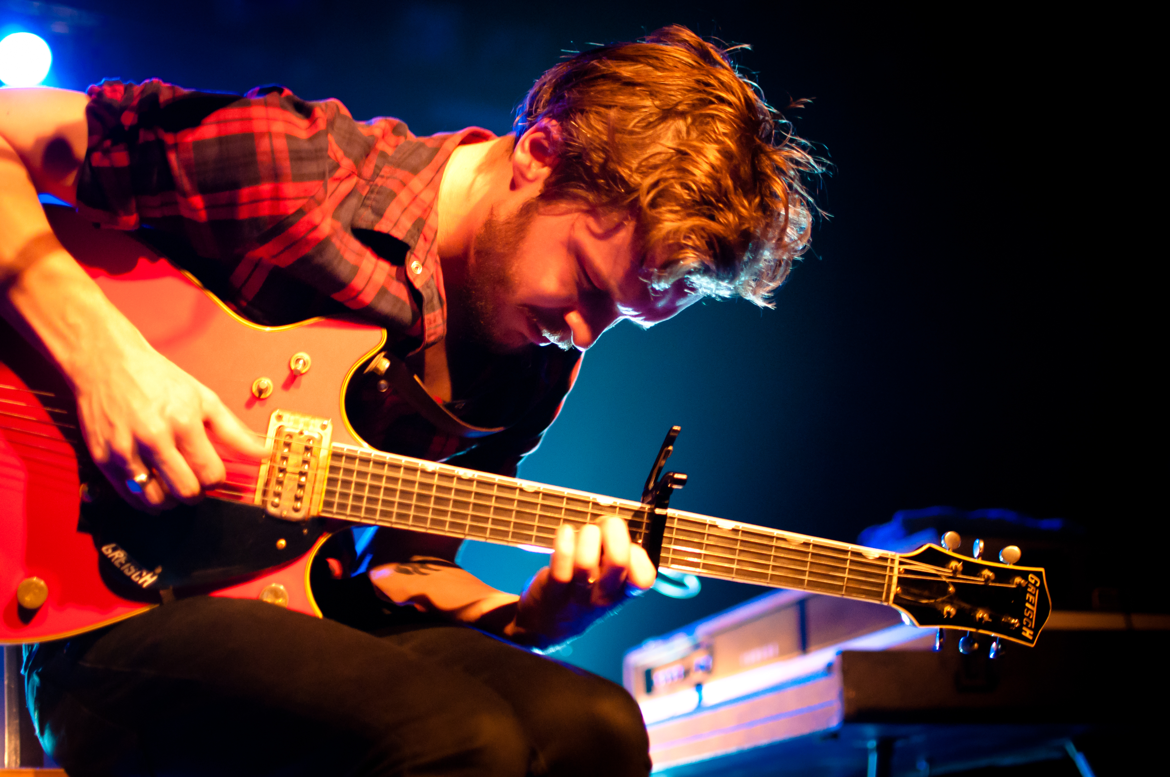 That guitar is what I would call "a beaut".